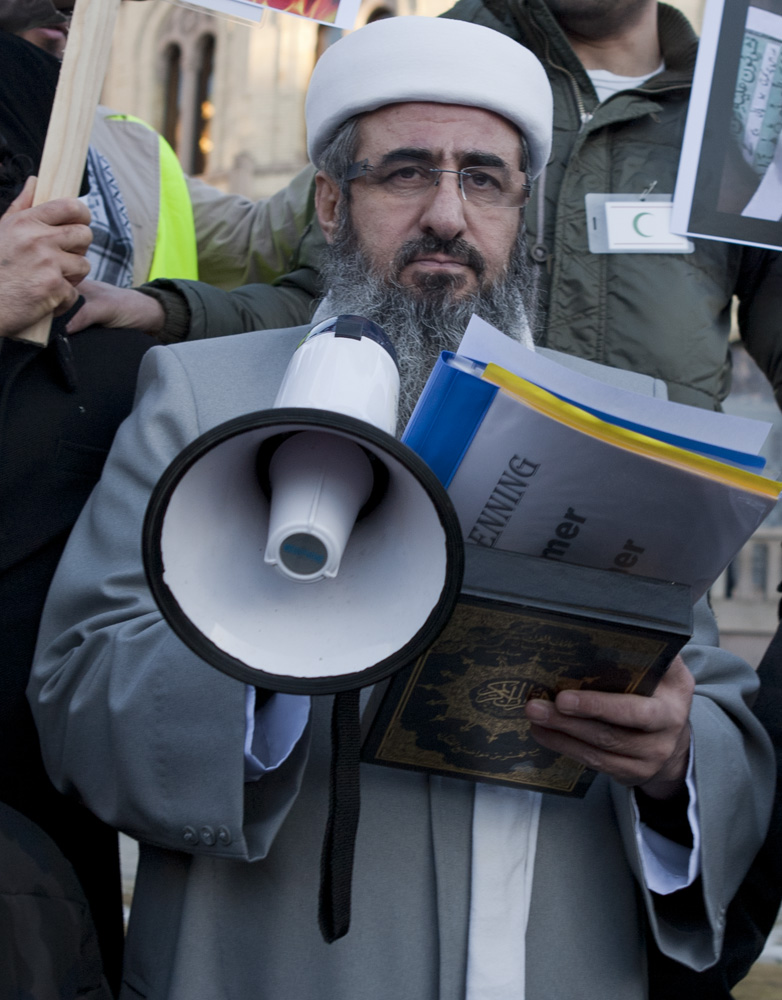 Mullah Krekar (born Najmuddin Faraj Ahmad July 7, 1956) during a demonstration against Quran burning in Oslo, Norway.